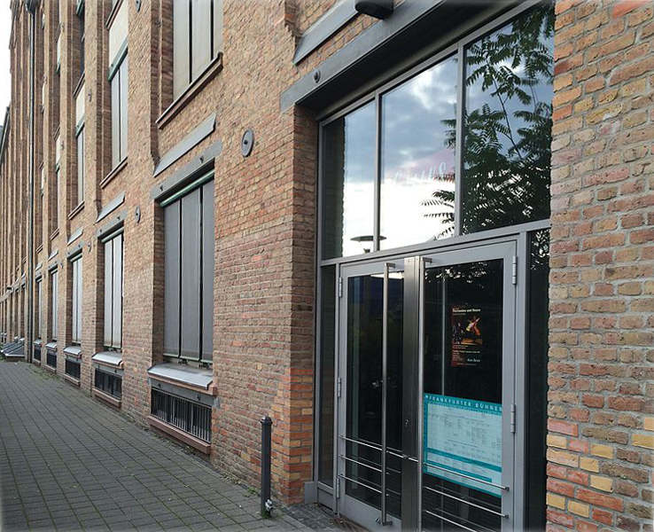 Gallus Theater